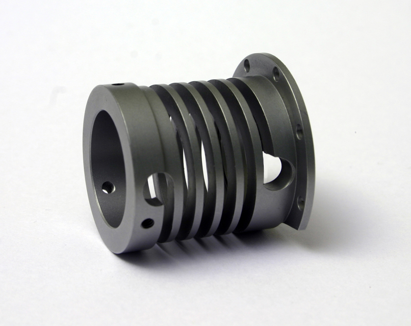 A machined spring integrating multiple features into one piece of material.